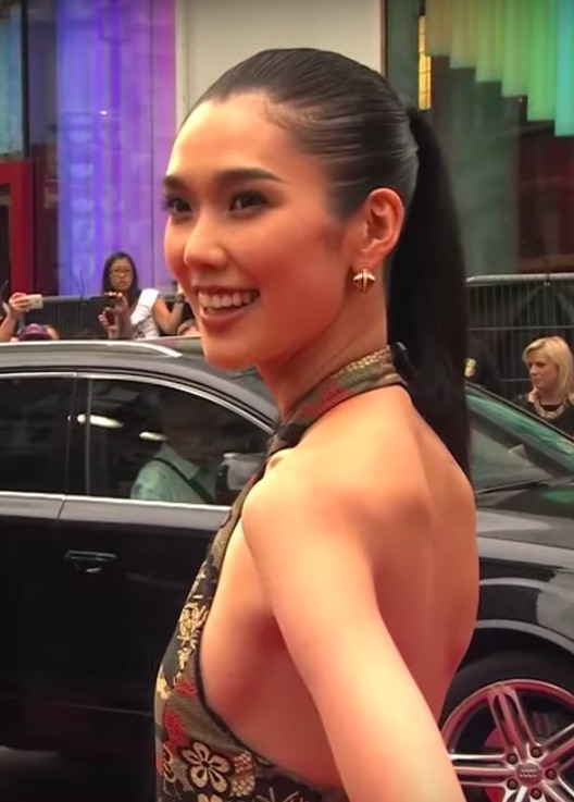 Tao Okamoto arriving at premiere of The Wolverine in 2013